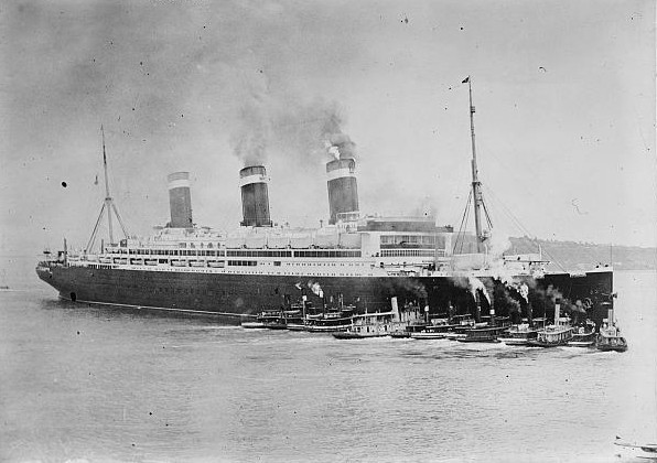 SS Leviathan, ocean liner